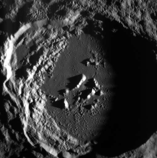 Futabatei crater on Mercury. MESSENGER Narrow Angle Camera. Approximate north is up. Width is approximately 57 km. Emission Angle: 12.0 Incidence Angle: 84.0 Latitude: -16.0 Longitude: 276.5 Phase Angle: 77.9